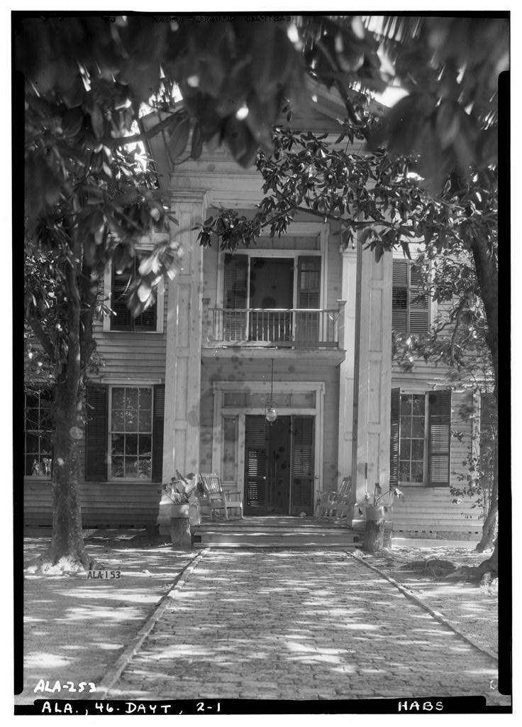 William Poole House CLOSE- UP OF FRONT ENTRANCE. 1. Historic American Buildings Survey Alex Bush, Photographer, December 12, 1936 . HABS ALA,46-DAYT,2-1